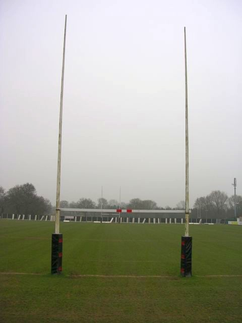 The Posts. Goal posts and pitch of the Manchester Rugby Club at Cheadle Hulme.